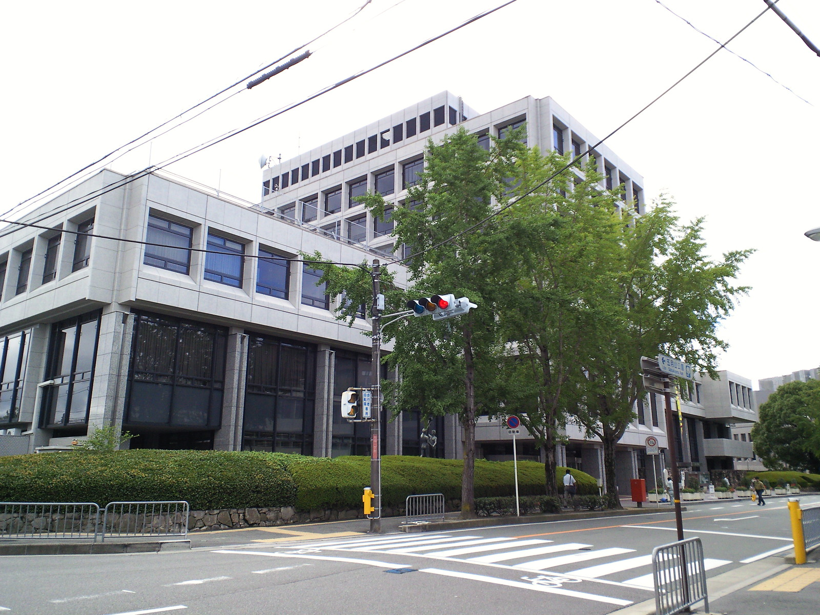 Ikeda-city Hall and Osaka Prefectural Toyono Civic Center Building in Ikeda, Osaka, Japan